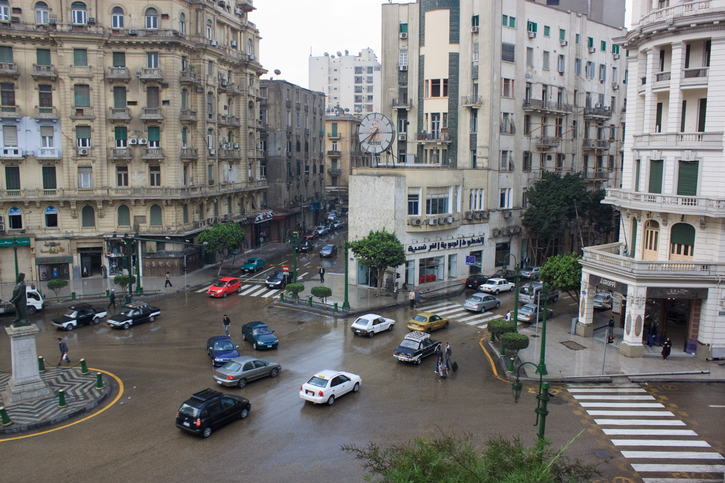 Cairo gets an average 6mm of rain every year. Why did it have to happen on the day I was there?